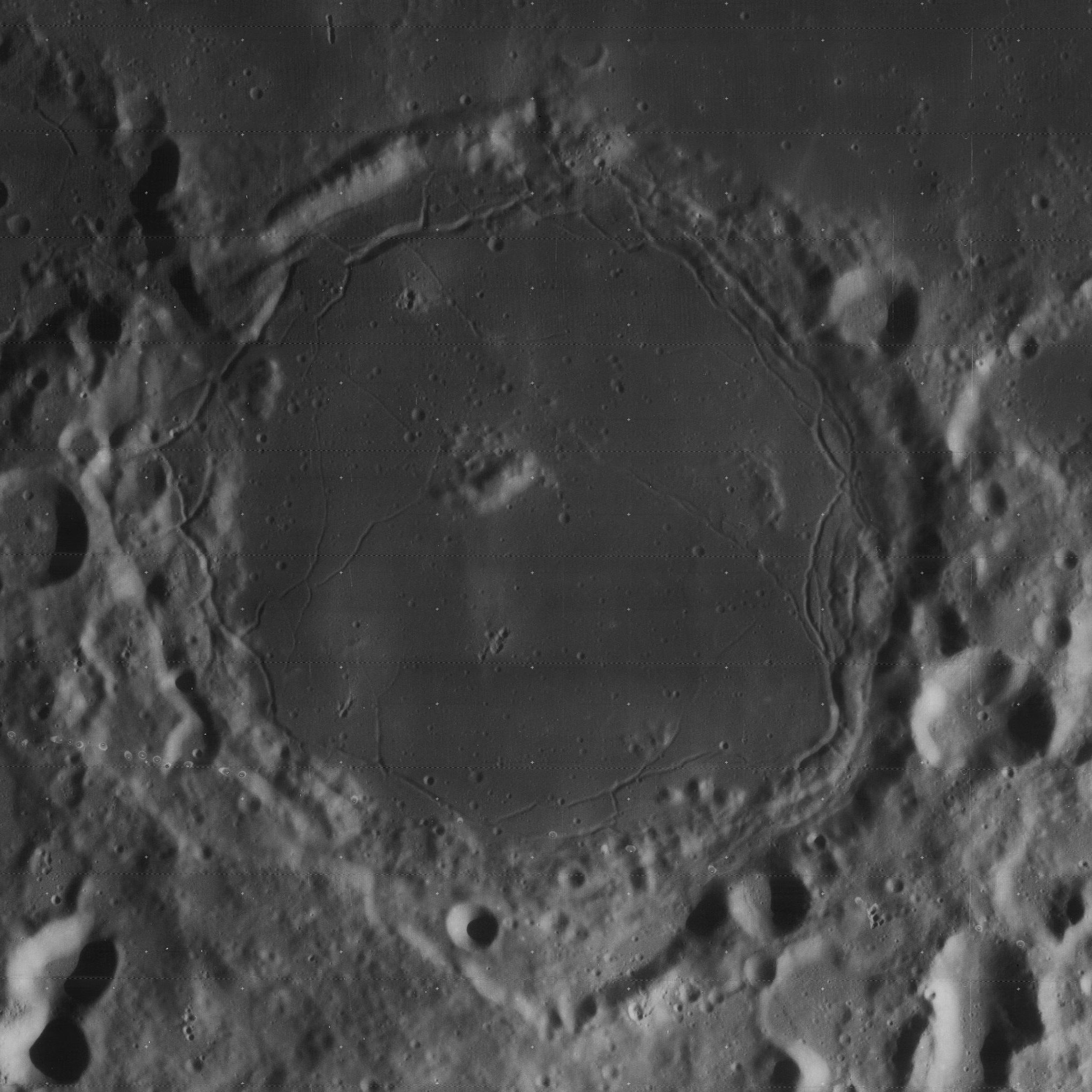 Pitatus, on the moon. Row of dots in lower left are blemishes on original.